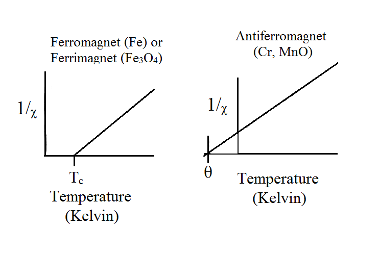 Linear magnetic susceptibility relationships between temperature in ferromagnets, ferrimagnets, and antiferromagnets.